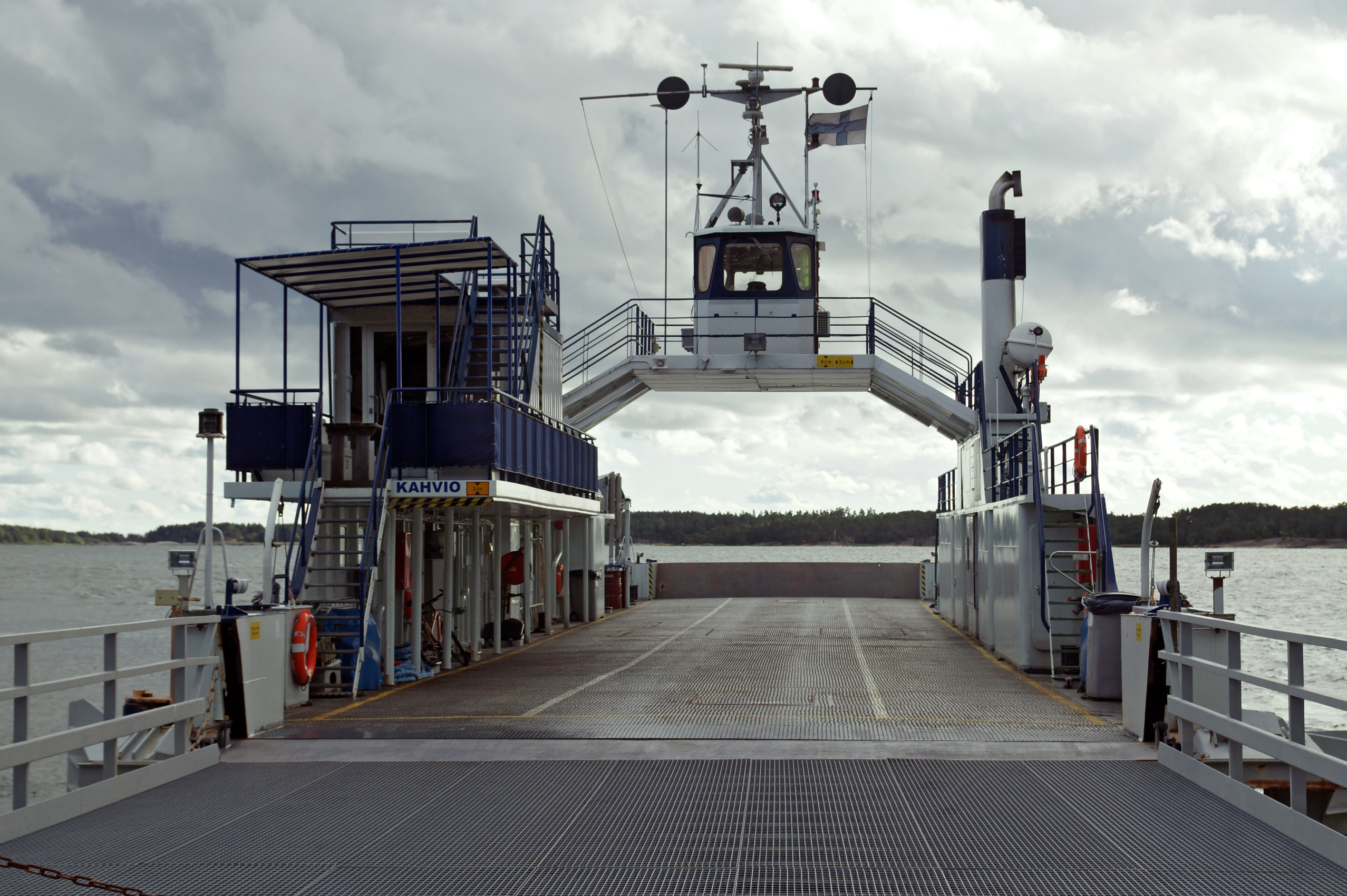 M/S Antonia.